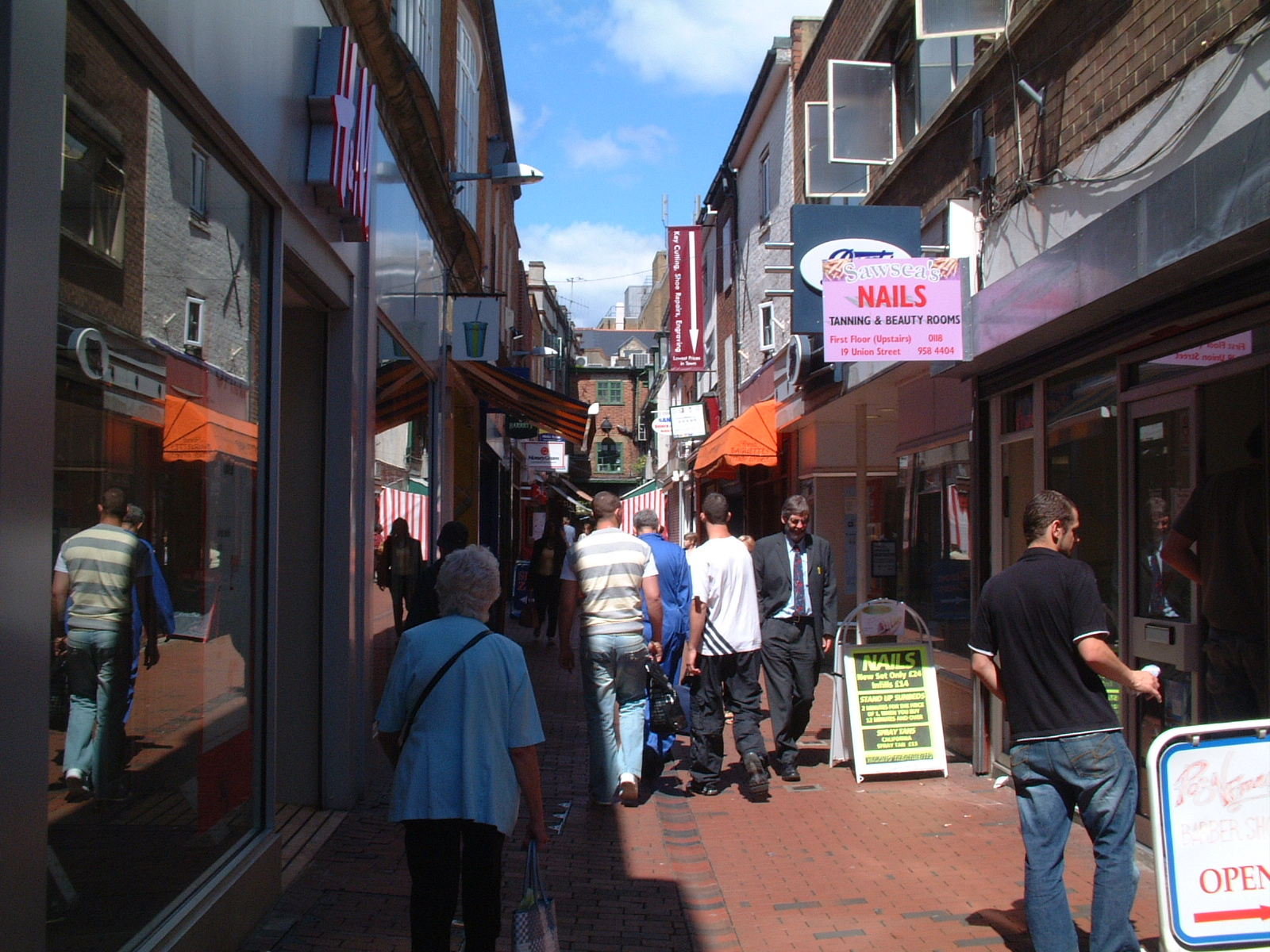 Union Street in Reading.